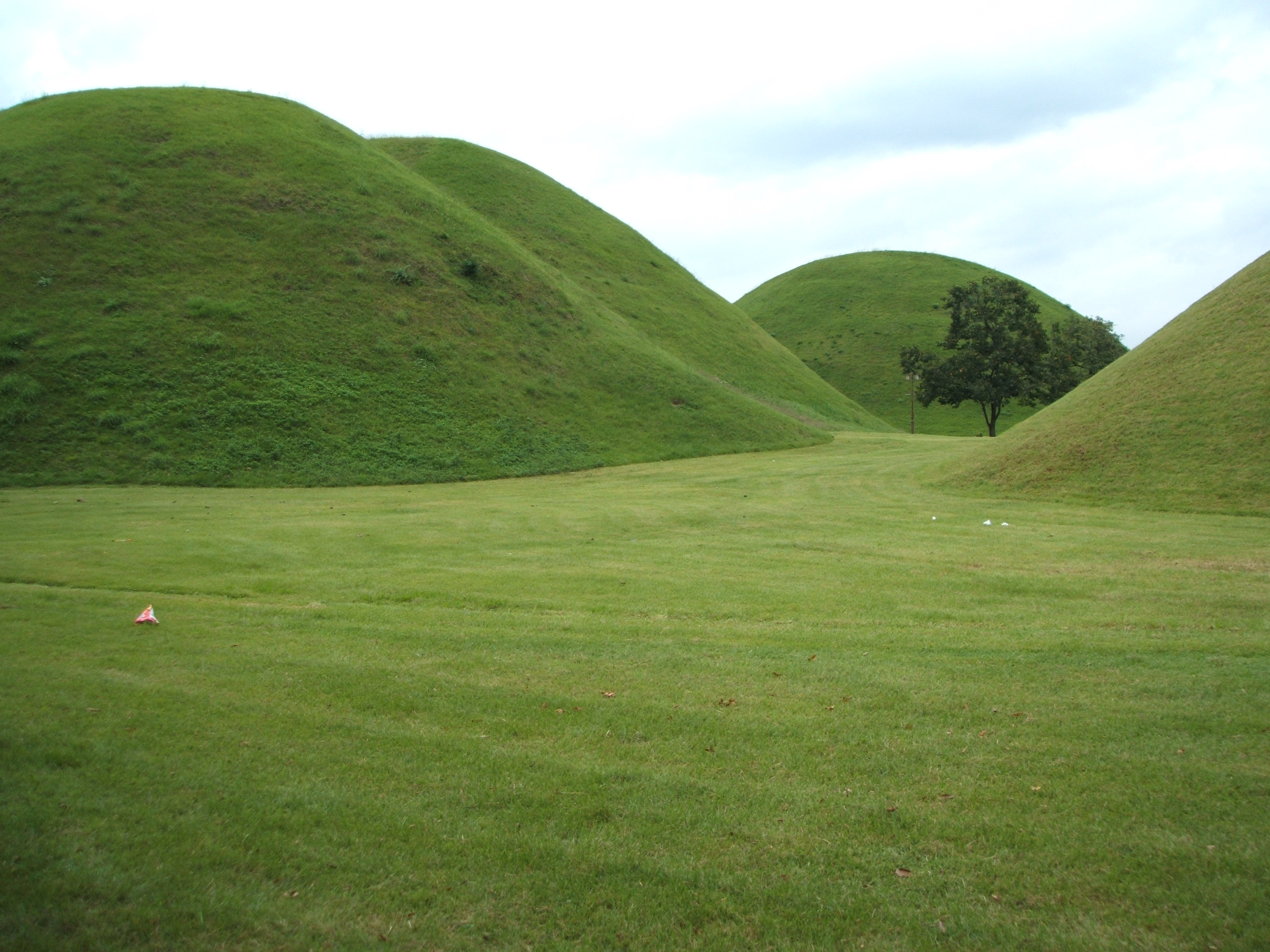 Burial mounds in Gyeongju